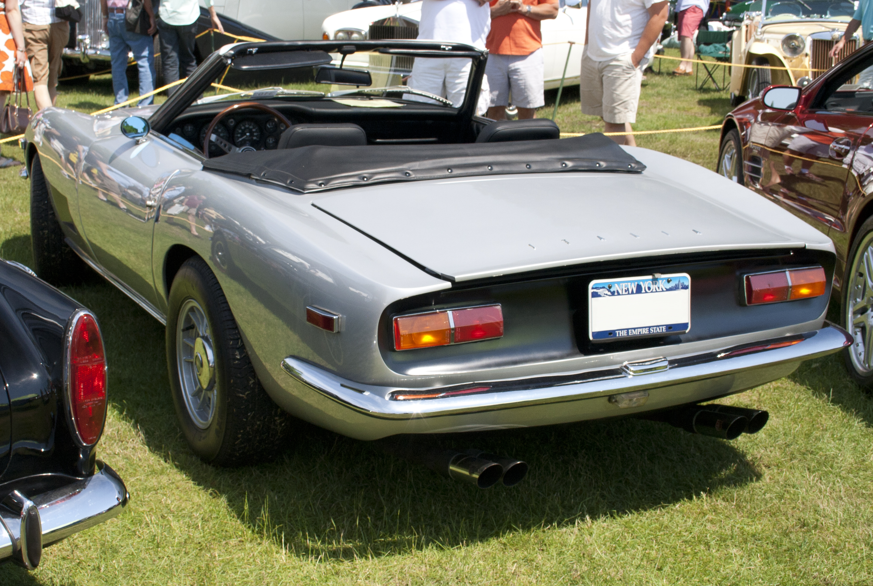 1972 Intermeccanica Italia Spyder at the 2012 Greenwich Concours d'Elegance.